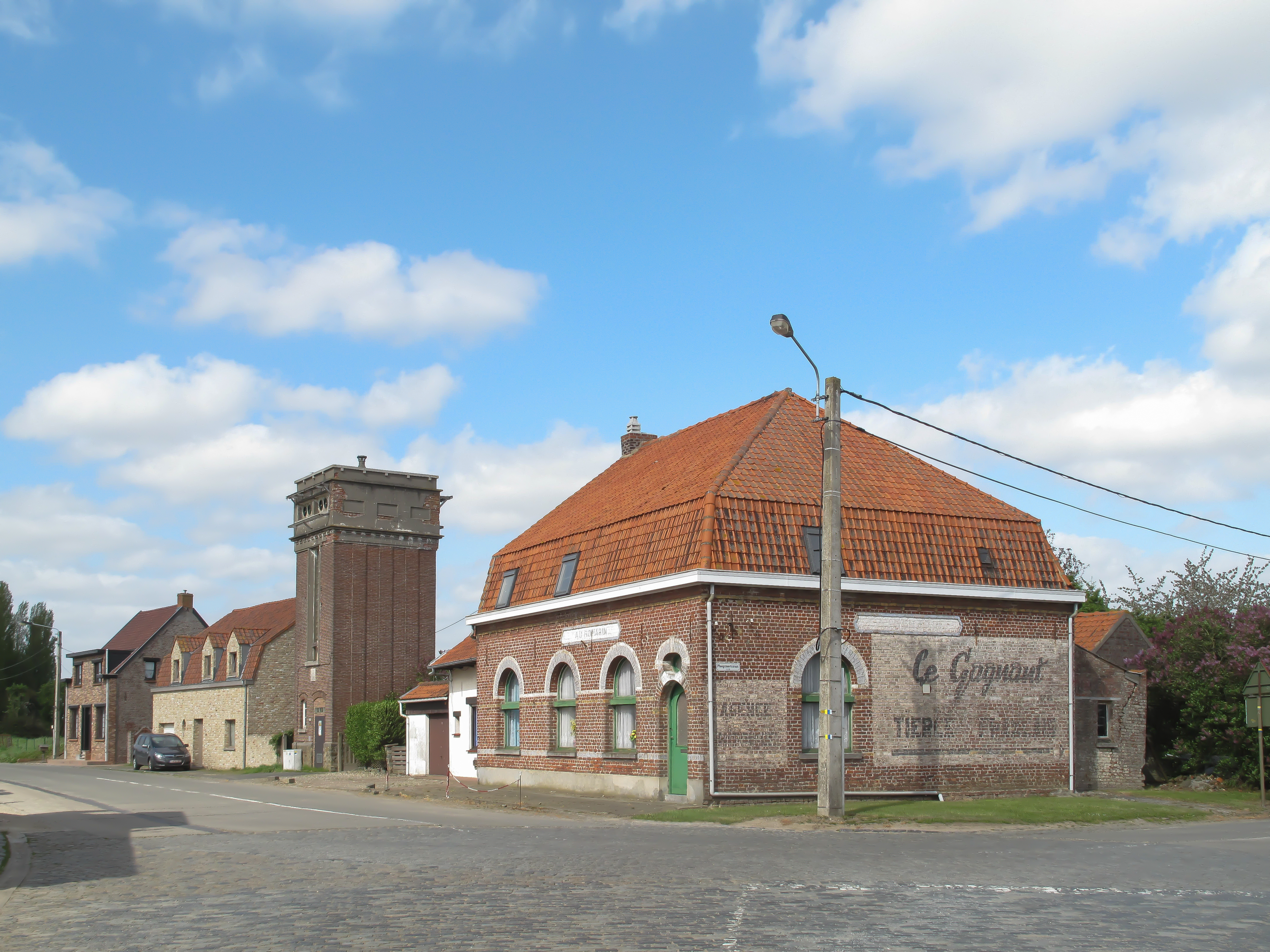 Romarin, view to the street